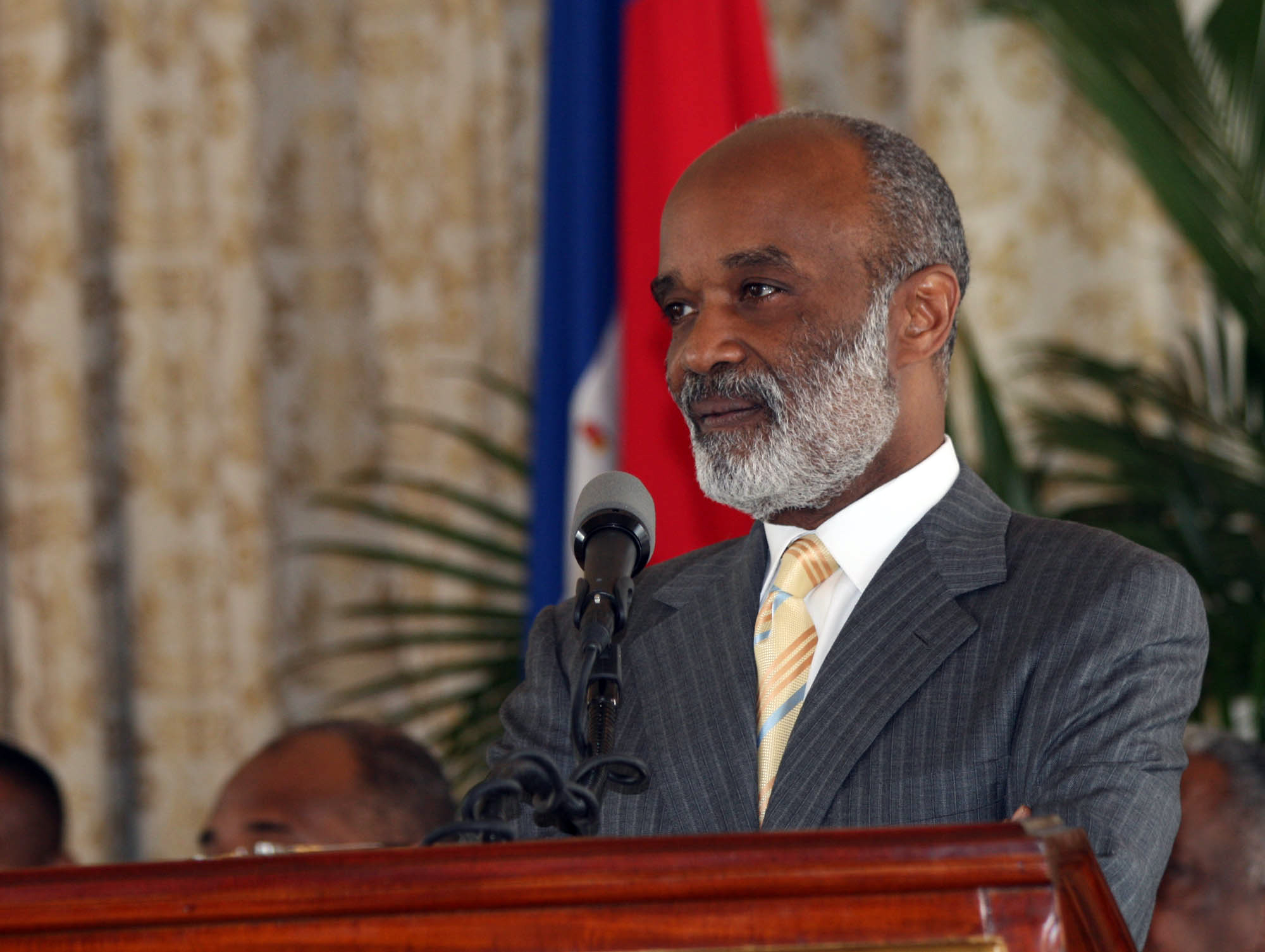 President of the Republic of Haiti, Rene Preval answers questions during a press conference at the National Palace, following a private meeting with U.S. Secretary of State Hillary Rodham Clinton in Port-au-Prince, Haiti April 16, 2009. State Department photo